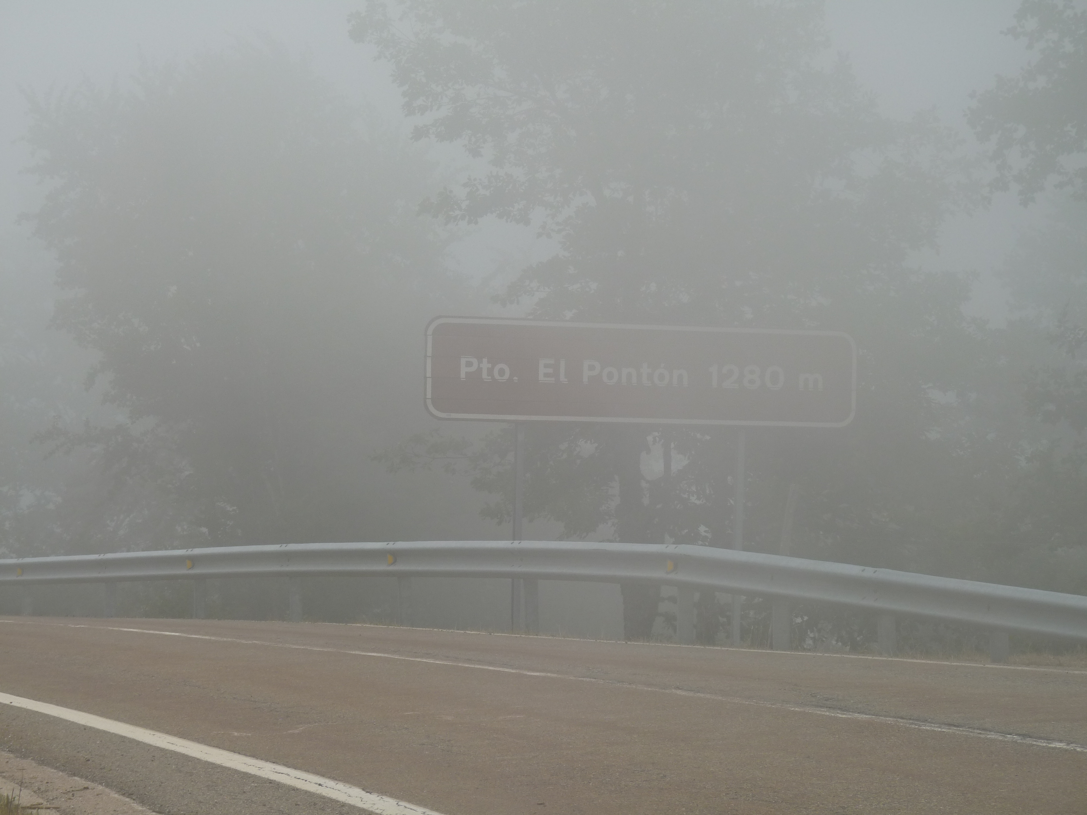 Puerto del Pontón, between Oseja de Sajambre and Burón, León, Castile and León, Spain.